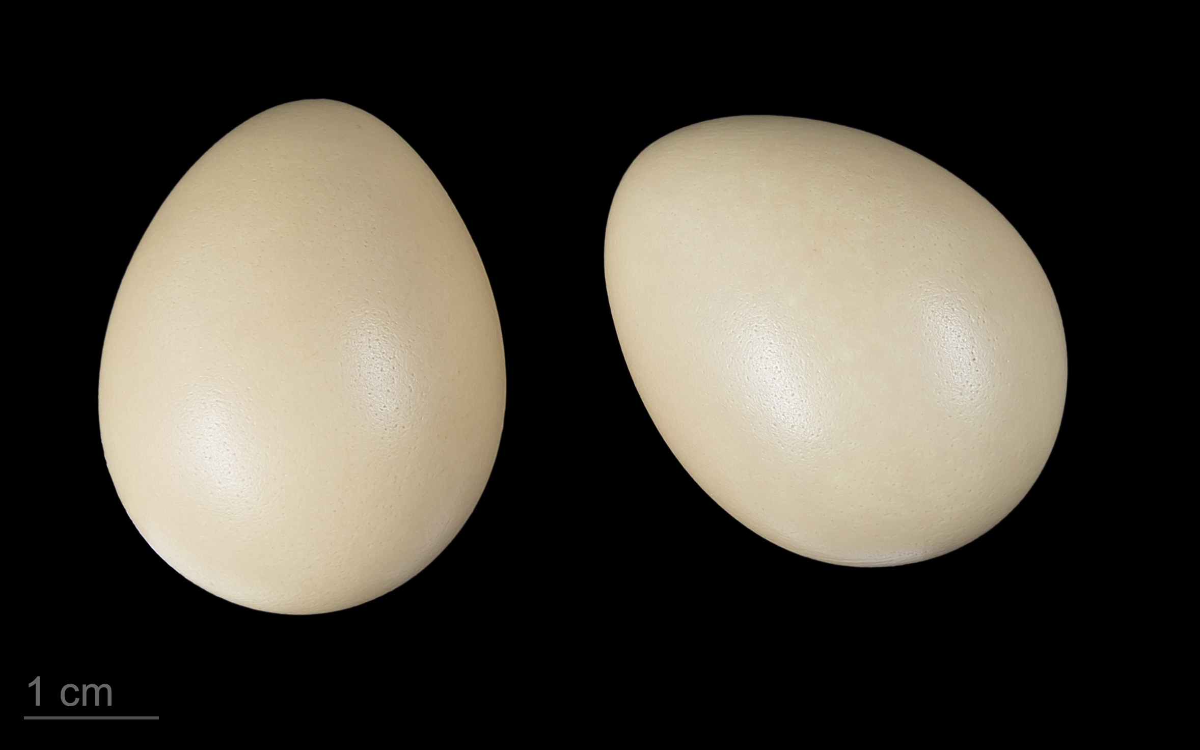 Egg of Perdix perdix armoricana Collection of Jacques Perrin de Brichambaut.